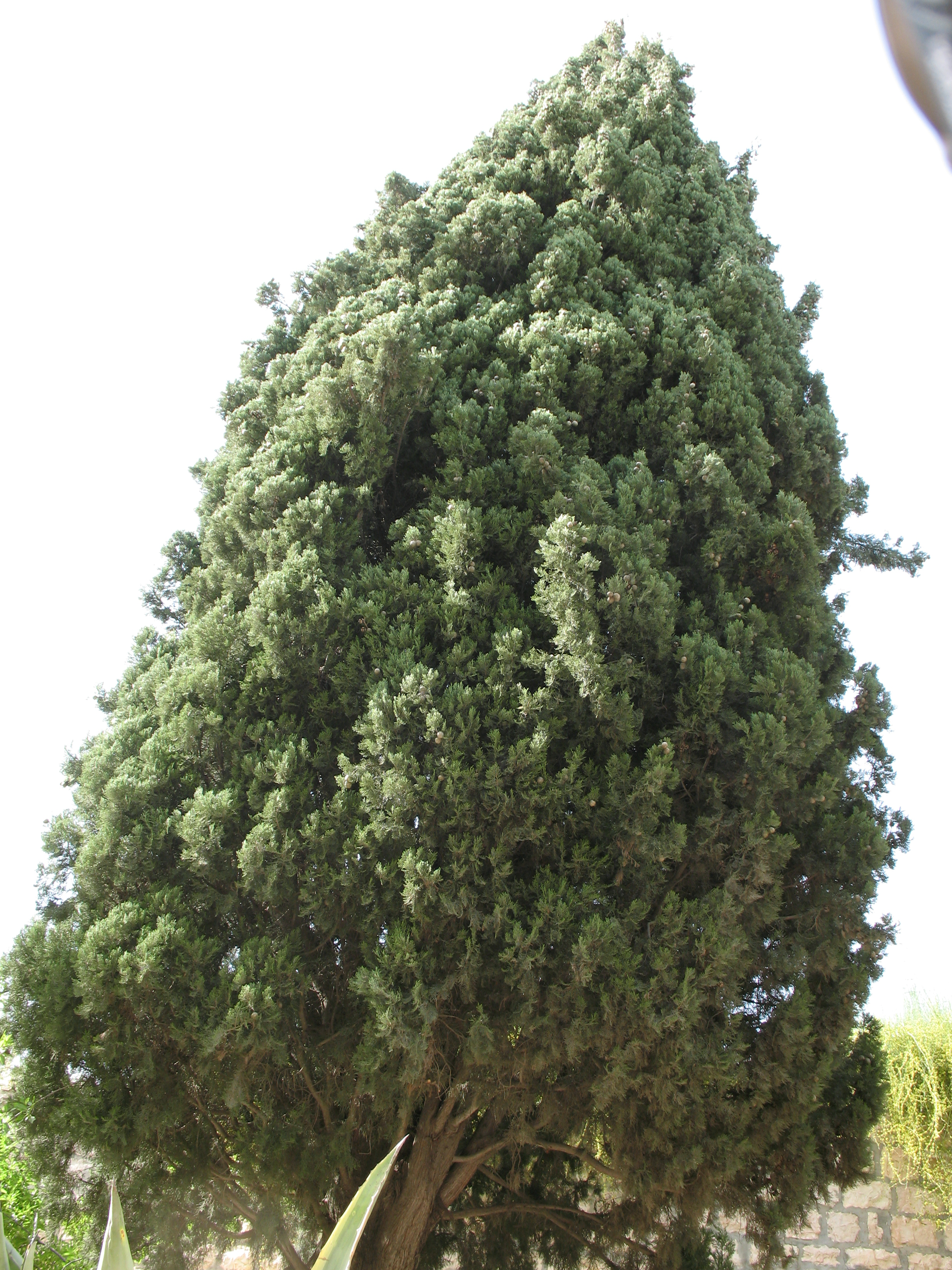 Evergreen tree_2073 The Garden Tomb is located in what is believed to have been a pre-Christian vineyard. ..